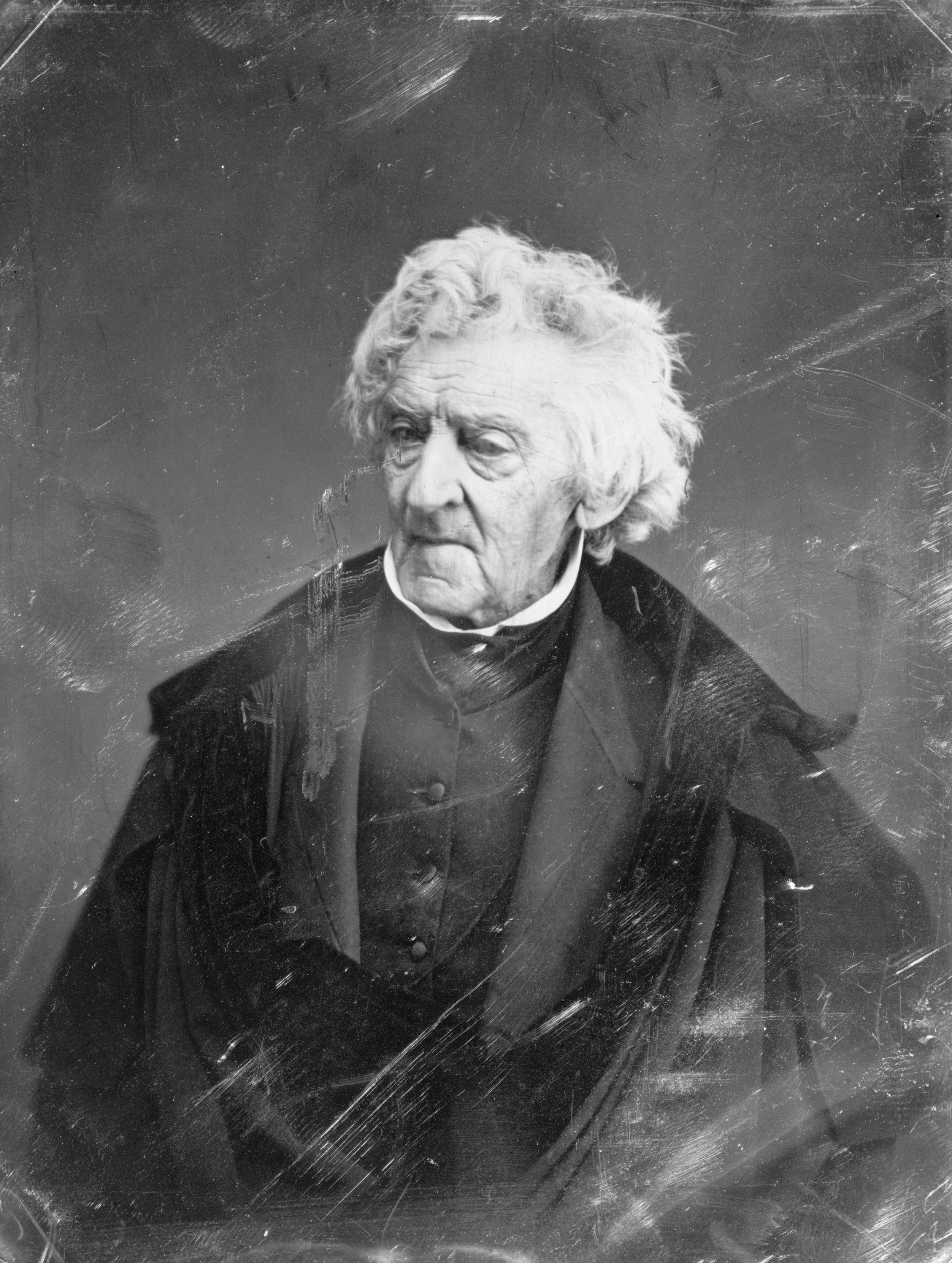 Photograph of William Cranch, between 1844 and 1860. Daguerrotype produced by Mathew Brady's studio.